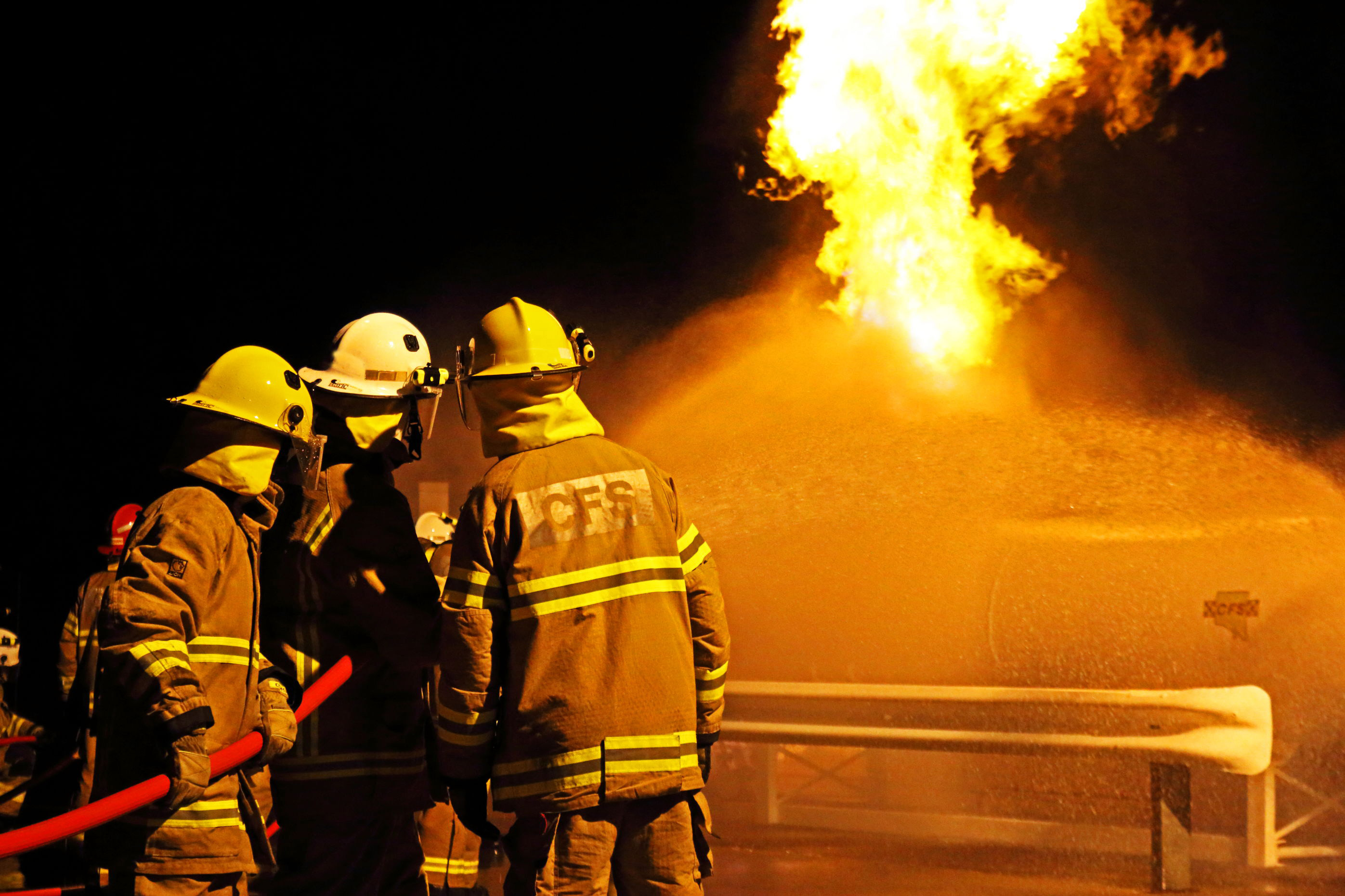 Firefighters train with LPG